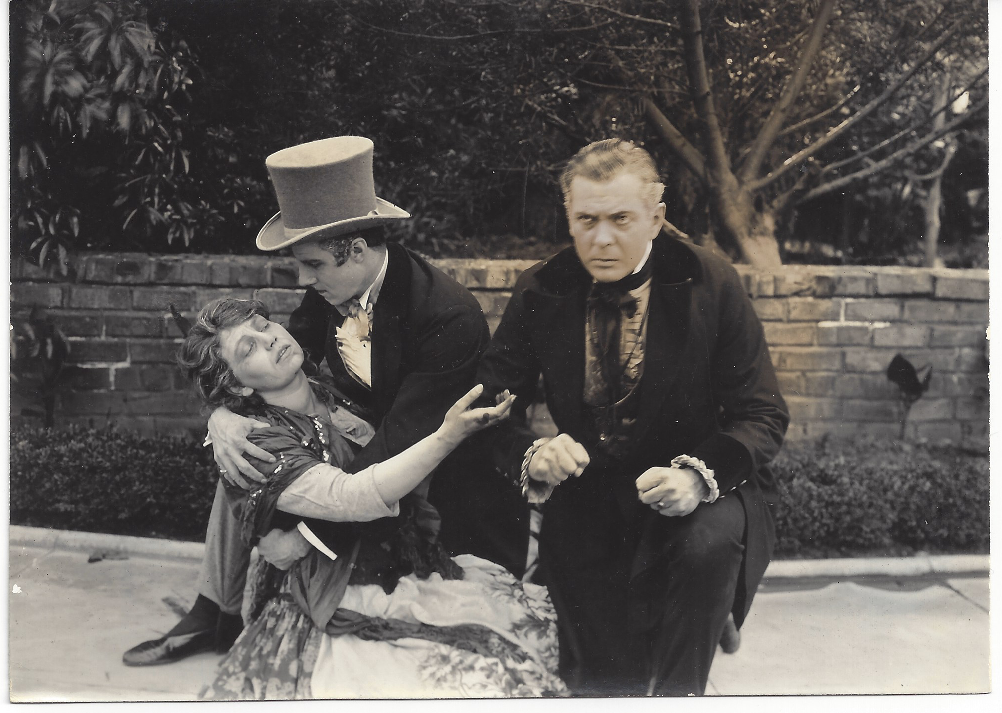 Movie still for silent short At the Stroke of the Angelus (1915). Scan of a photograph from the estate of Mary H. O'Connor.